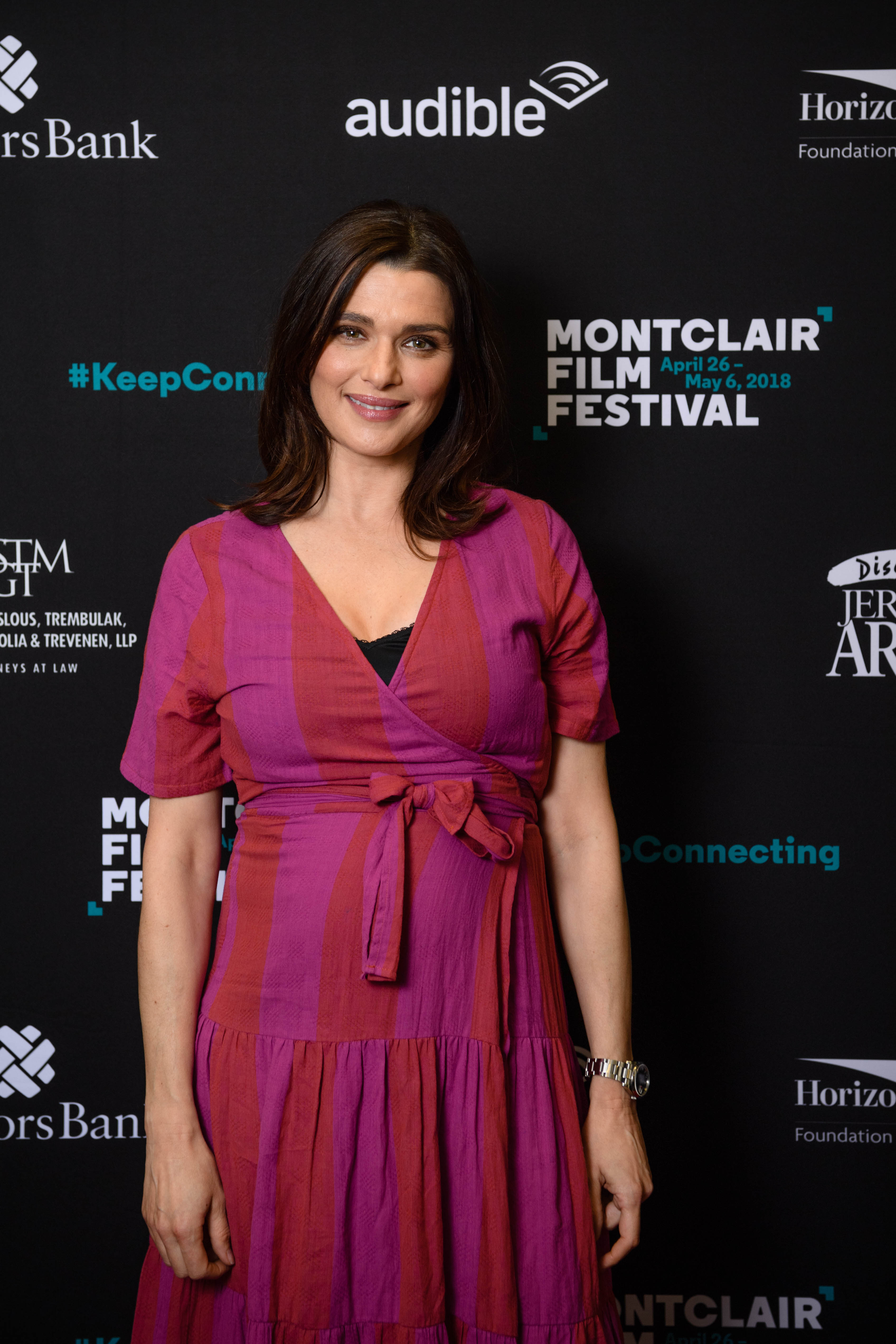 photo by "Neil Grabowsky / Montclair Film"